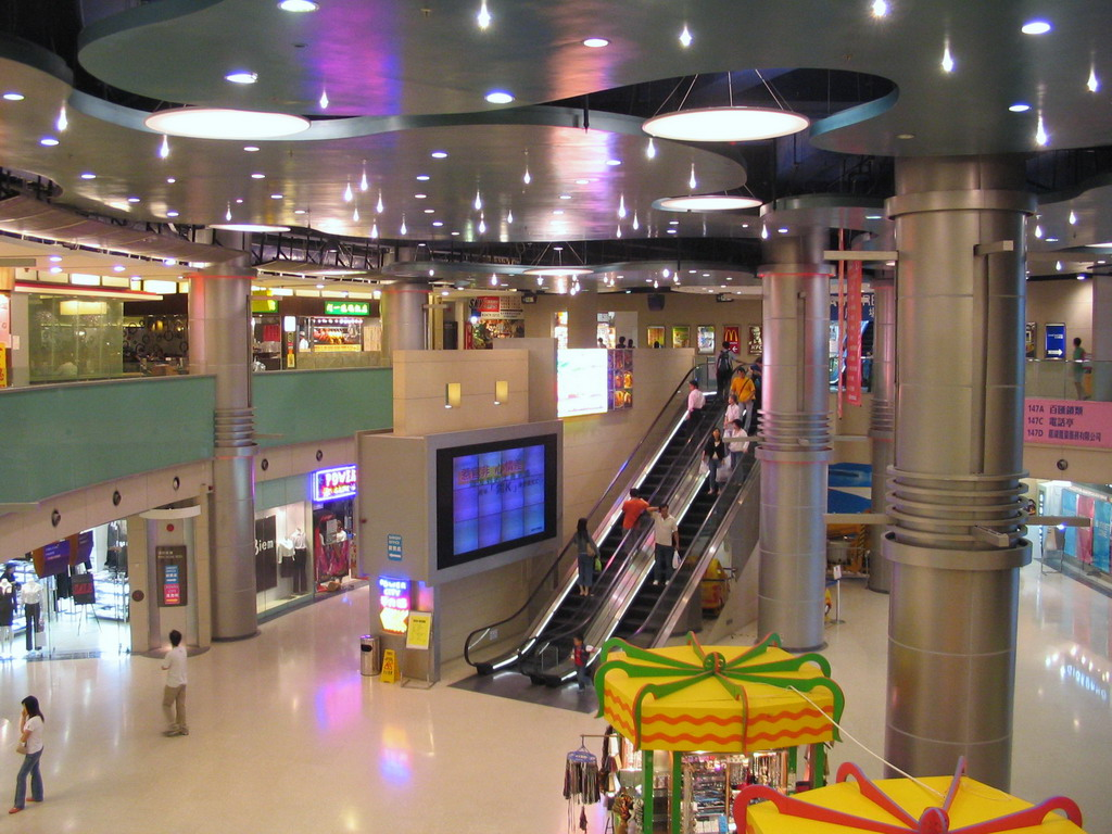 Kingswood Ginza Phase 1 (Amazing Lane)